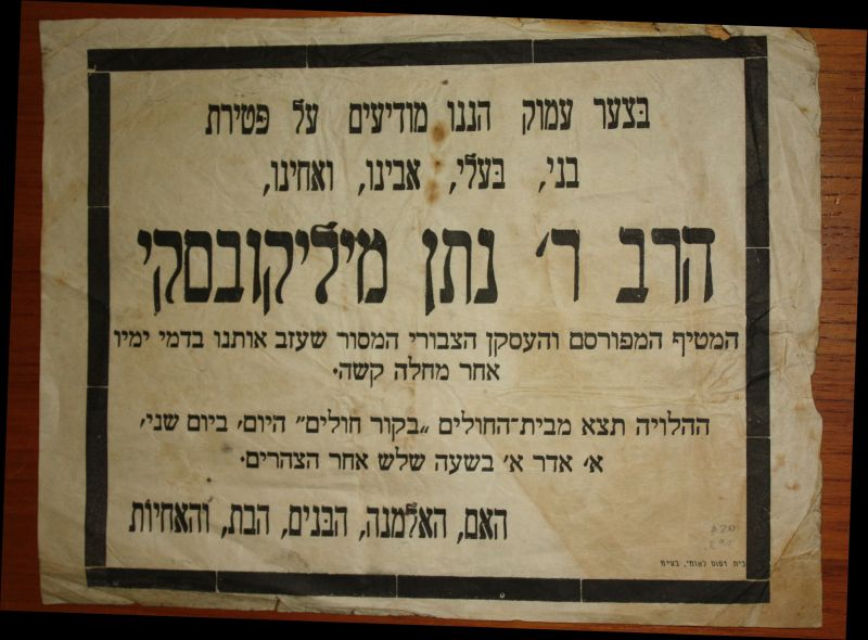 Mourning poster of Rabbi Nathan Milikovski (grandfather of benjamin netanyahu